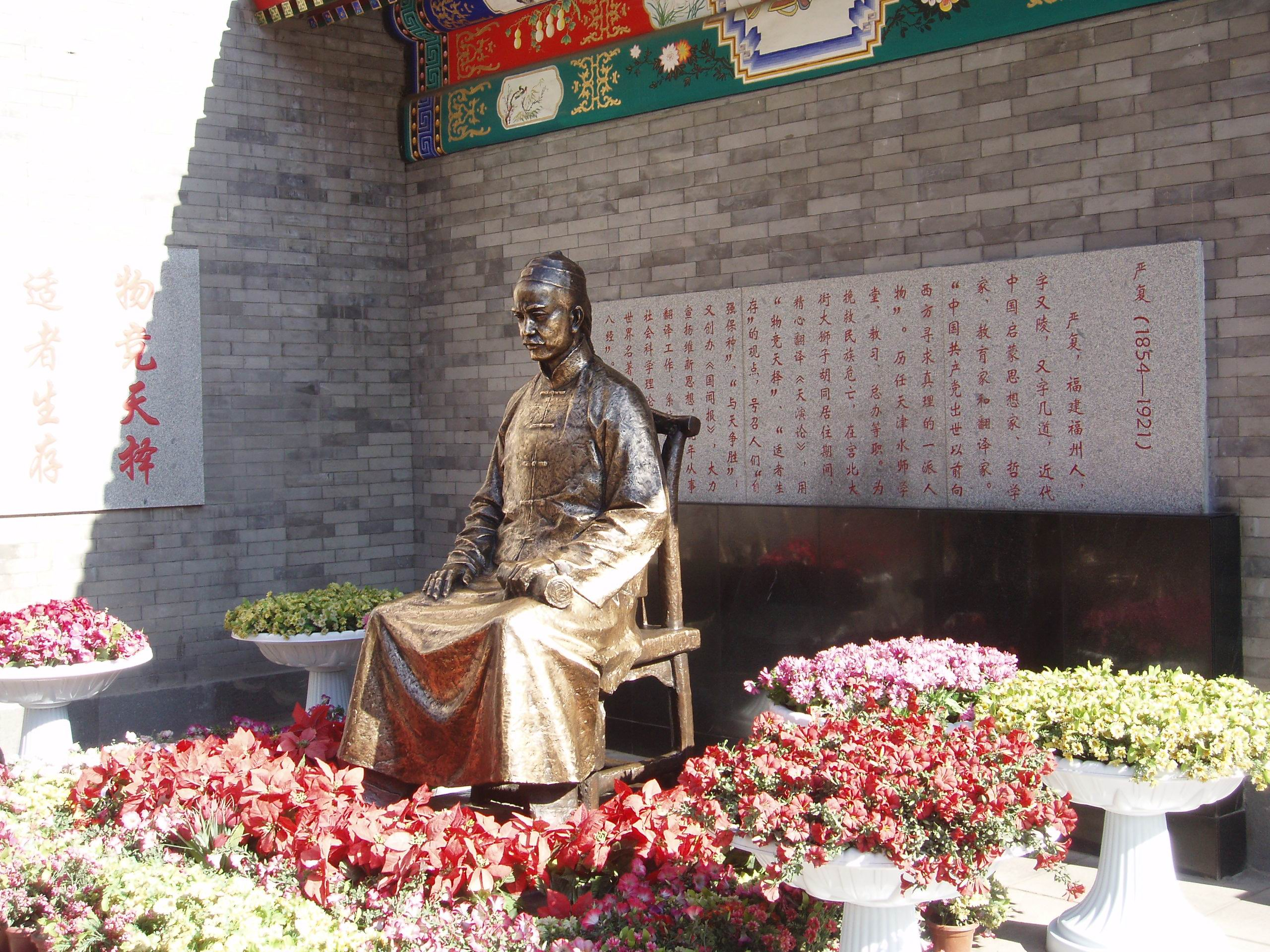 Statue of Yan Fu